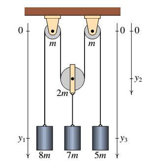 Sistema com três movimentos dependentes e dois graus de liberdade.